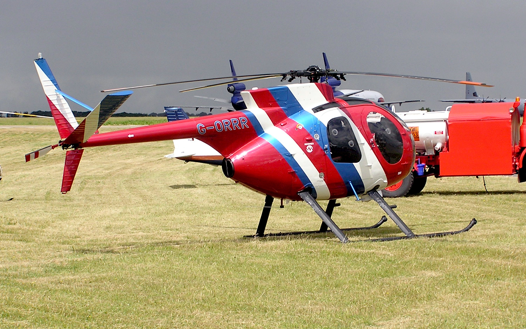 Hughes 500 Model 369HS (G-ORRR, built 1975) at Kemble Airfield, Gloucestershire, England. (The blue aircraft beyond are DC-10 for scrapping). Photographed by Adrian Pingstone in June 2004 and released to the public domain.